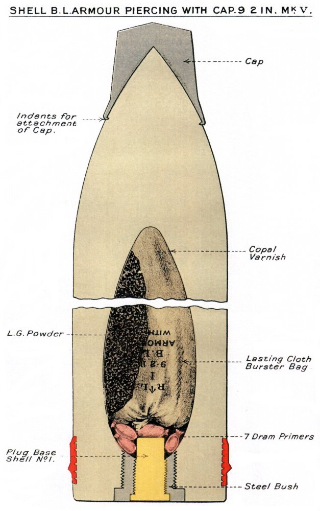 Diagram of British Capped Armour-Piercing shell Mk V, for BL 9.2 inch naval and coast defence guns. Length approximately 3 calibres (27.6 inches; precise length varied by contractor), diameter 9.165 inches, weight filled & fuzed 380 lbs. Shell made of forged or cast steel, hardened for attacking armour, with mild steel cap. Filled with approximately 20 lbs L.G. powder (gunpowder) contained in a cloth burster bag together with several 7-dram primers around the fuze. Used with No. 15 Large base percussion fuze.